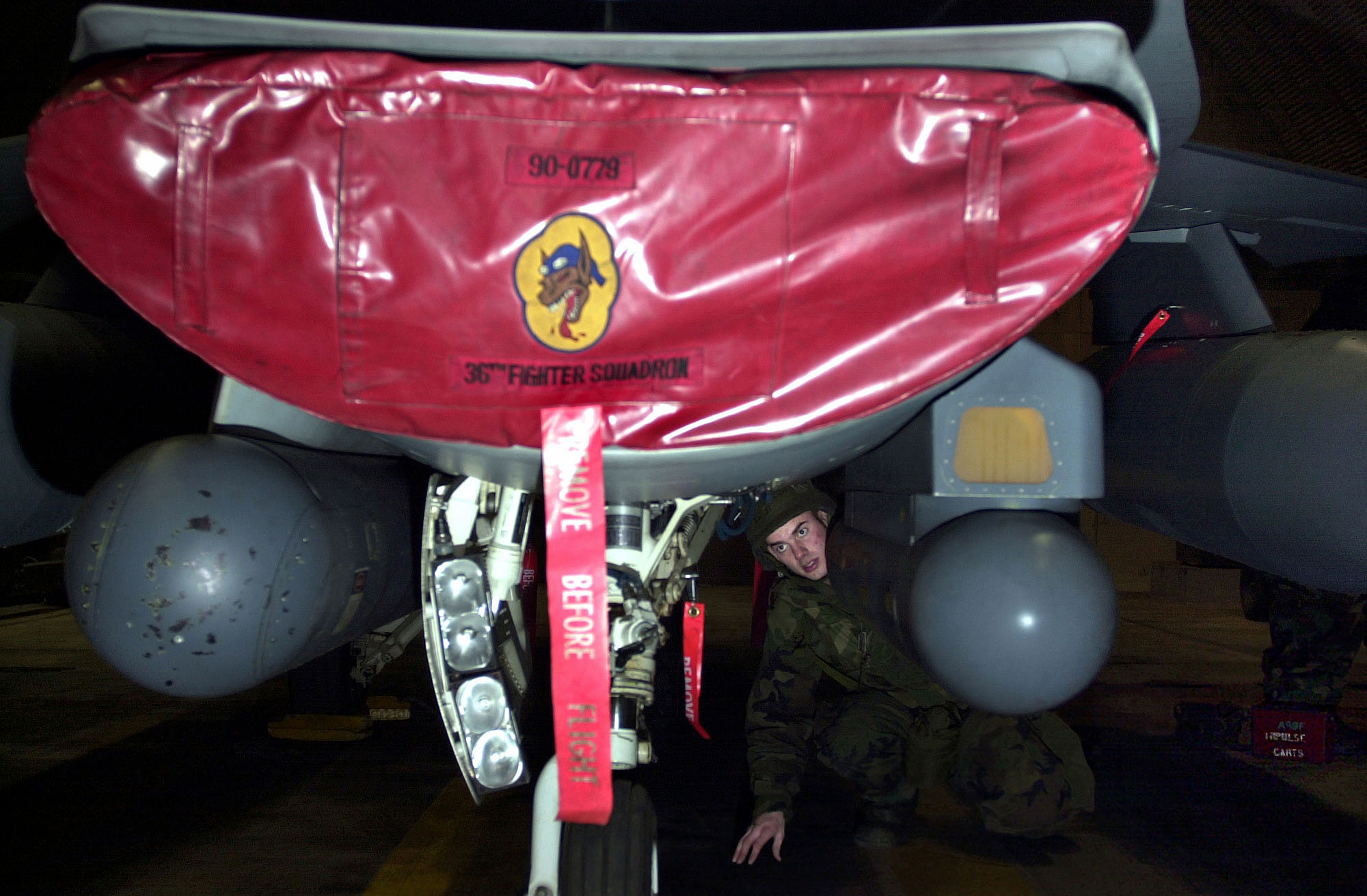 US Air Force Senior Airman Cameron Linegar, 36th Fighter Squadron, checks the landing gear of an F-16 Fighting Falcon aircraft during pre-flight checks during Operational Readiness Inspection at Osan Air Base, Republic of Korea. Location: OSAN AIR BASE, KYONGGI-DO REPUBLIC OF KOREA (KOR)